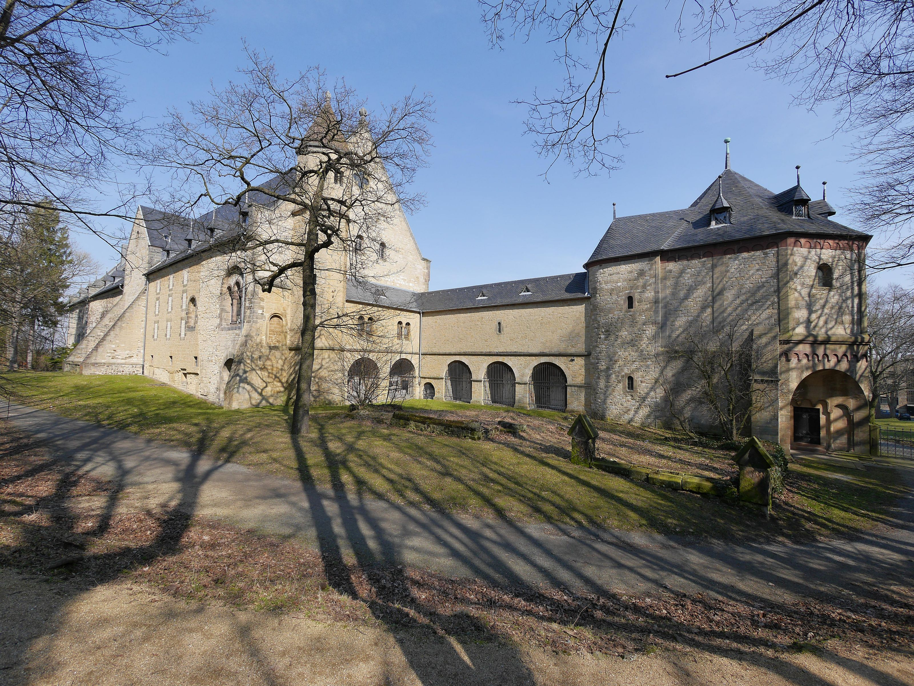 Back side of the ancient emperor castle in Goslar, Germany.